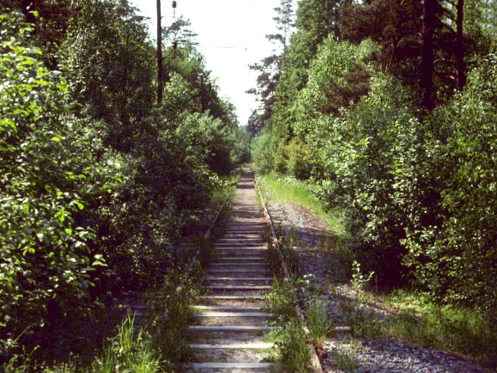 "Krutbanan" (The gunpowder line) was a secret military railroad in Stockholm, about 3 km long, from the main railway line a bit north of Ulriksdal station to an ammunition depot in Ursvik. "Krutbanan" was never drawn on publicly available map. Already in the 1970's the rail trafic was very sparse there and during the later parts of the 1980's the rails were torn up and removed.